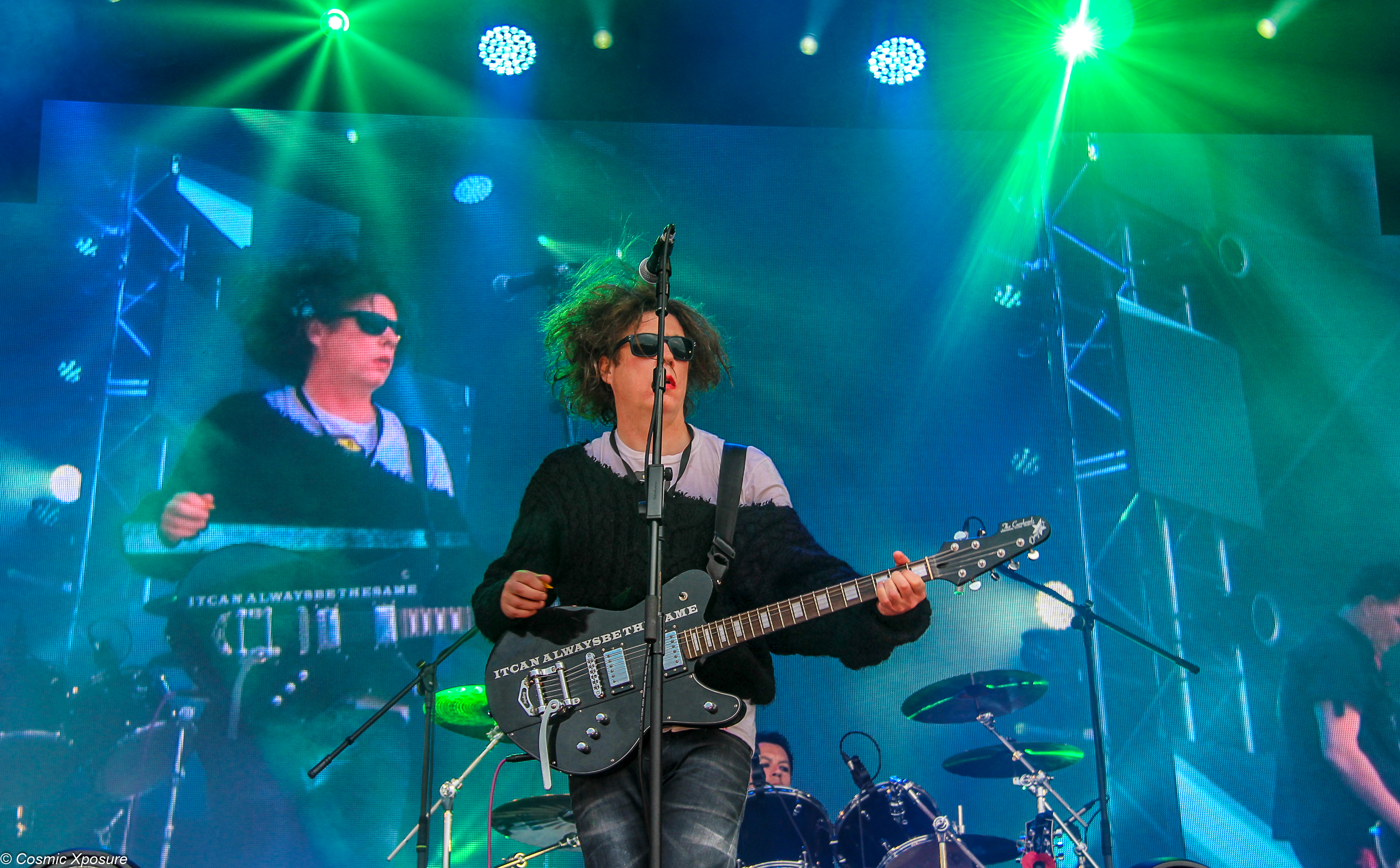 The Cureheads, The Cure Tribute band onstage at Glastonbudget Festival in 2019, near Leicester, England